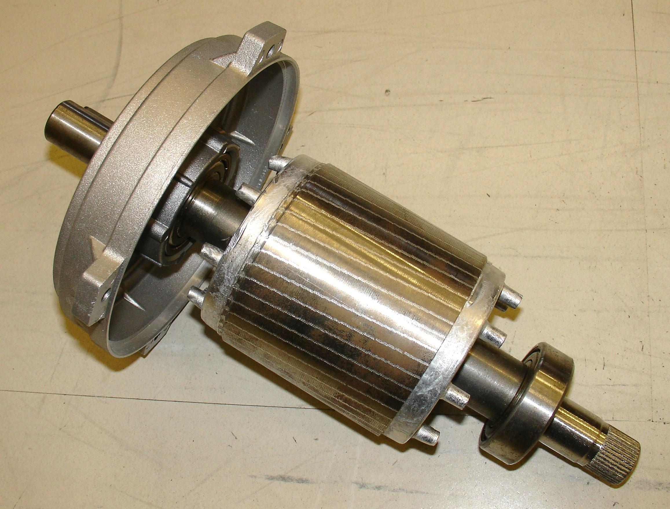 Rotor of induction motor - squirrel cage rotor: 0.75 kW, 1420 rpm, 50 Hz, 230-400 V, 2.0-2.4 A